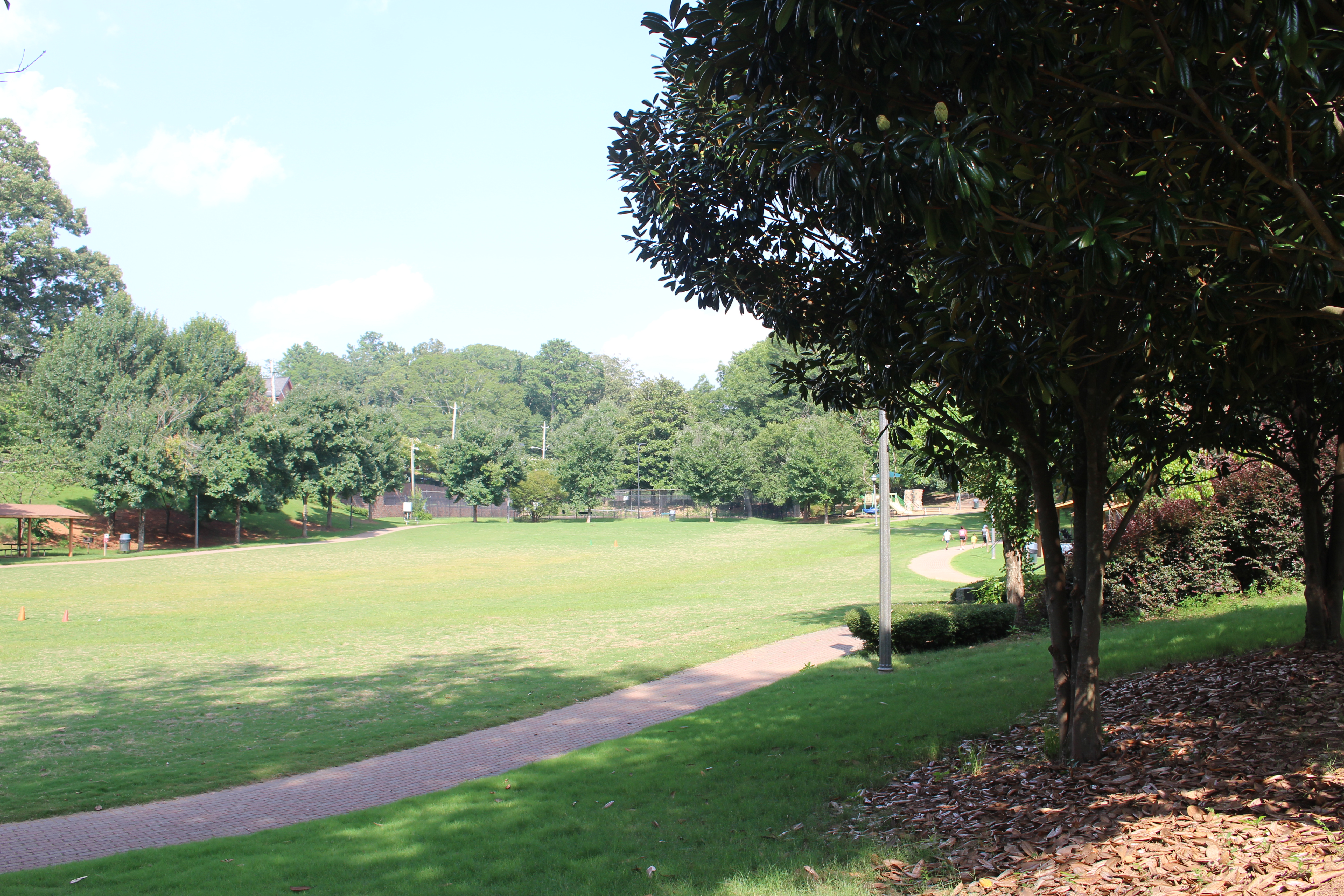 Barrett Park, College Park, GA. August 2018.